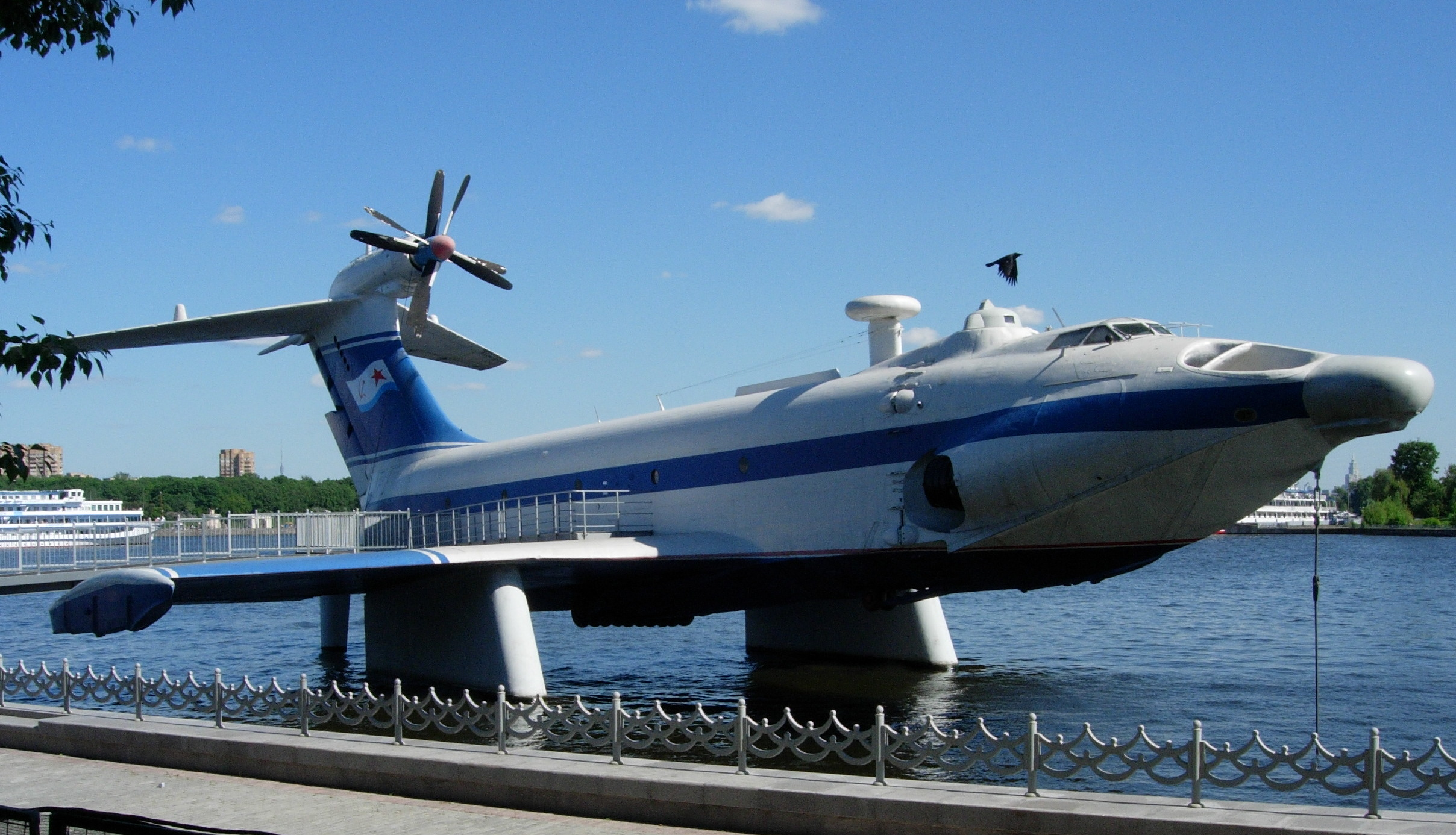 The part of open air branch of Russian Navy museum on river Moskva. The A-90 is not a conventional aircraft, but uses the ground effect to fly a few meters above the surface. Thus it is properly called GEV or ground effect vehicle or ekranoplan in Russian.